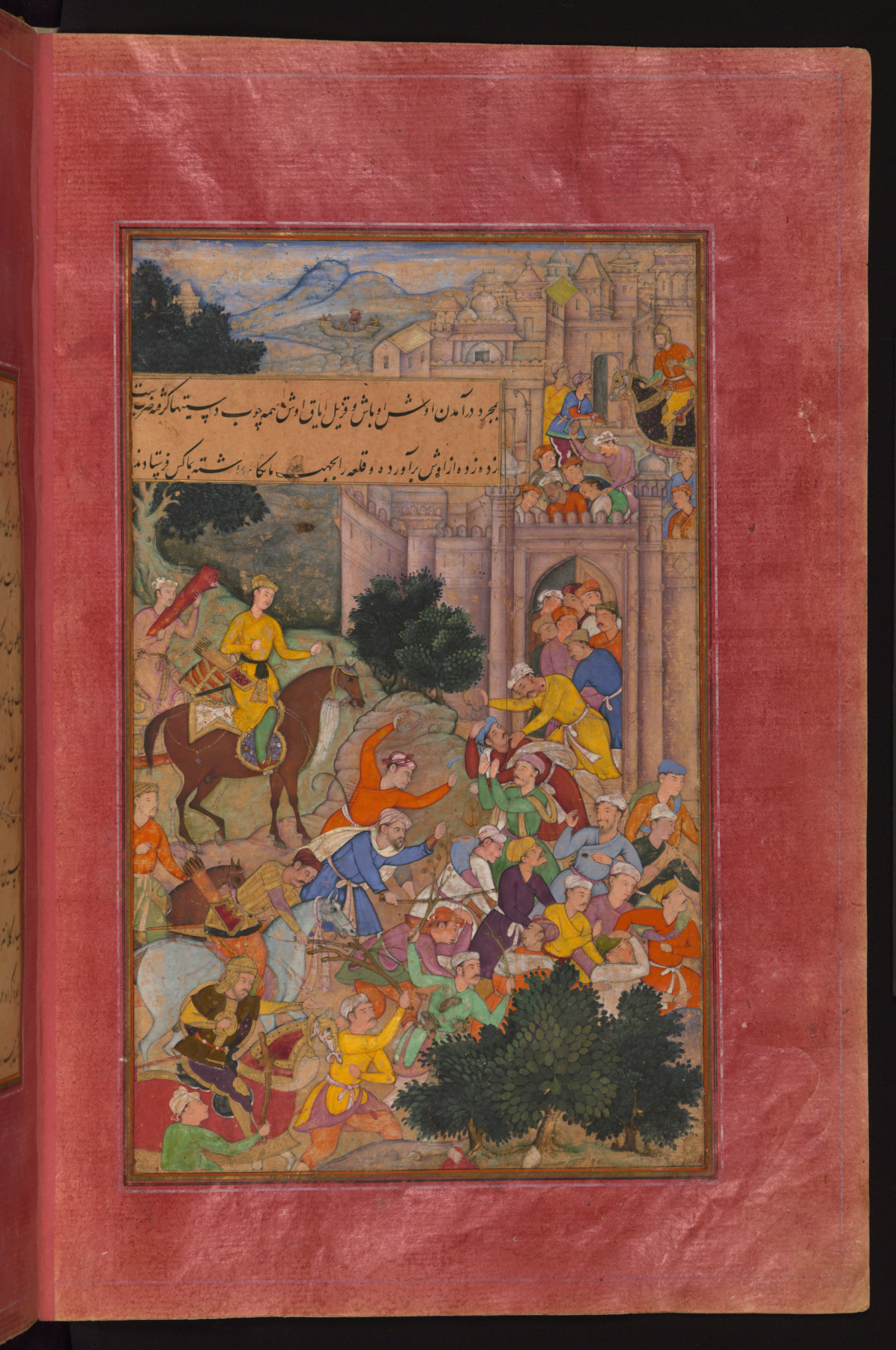 Illustrations from the Manuscript of Baburnama (Memoirs of Babur) - Late 16th Century Bāburnāma is the memoirs of Ẓahīr ud-Dīn Muḥammad Bābur (1483-1530), founder of the Mughal Empire and a great-great-great-grandson of Timur. It is an autobiographical work, originally written in the Chagatai language, known to Babur as "Turki" (meaning Turkic), the spoken language of the Andijan-Timurids. Because of Babur's cultural origin, his prose is highly Persianized in its sentence structure, morphology, and vocabulary,and also contains many phrases and smaller poems in Persian. During Emperor Akbar's reign, the work was completely translated to Persian by a Mughal courtier, Abdul Rahīm, in AH (Hijri) 998 (1589-90). These Paintings, being a fragment of a dispersed copy, was executed most probably in the late 10th AH /16th CE century. It contains 30 mostly full-page miniatures in fine Mughal style by at least two different artists. Another major fragment of this work (57 folios) is in the State Museum of Eastern Cultures, Moscow.